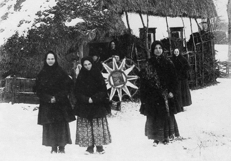 Koliada in Ukraine. Kharkov Governorate, 1900s.